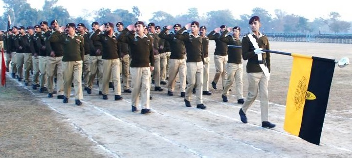 Pak Army AirDefence Regiment March Past